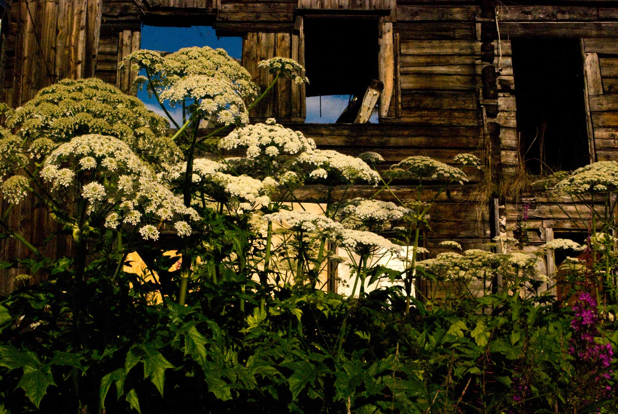 Heracleum persicum, or giant hogweed. Dubbed "Tromsø palm" in Tromsø.